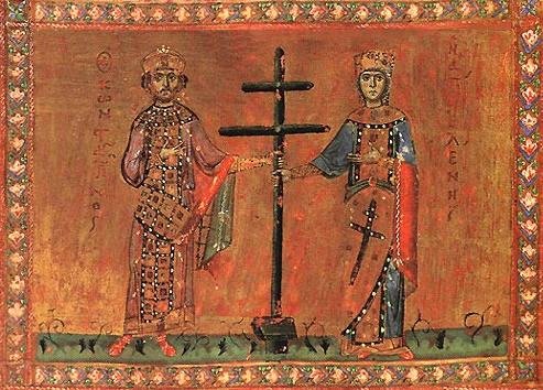 Byzantine image of St. Constantine (Constantine the Great) and St. Helena of Constantinople